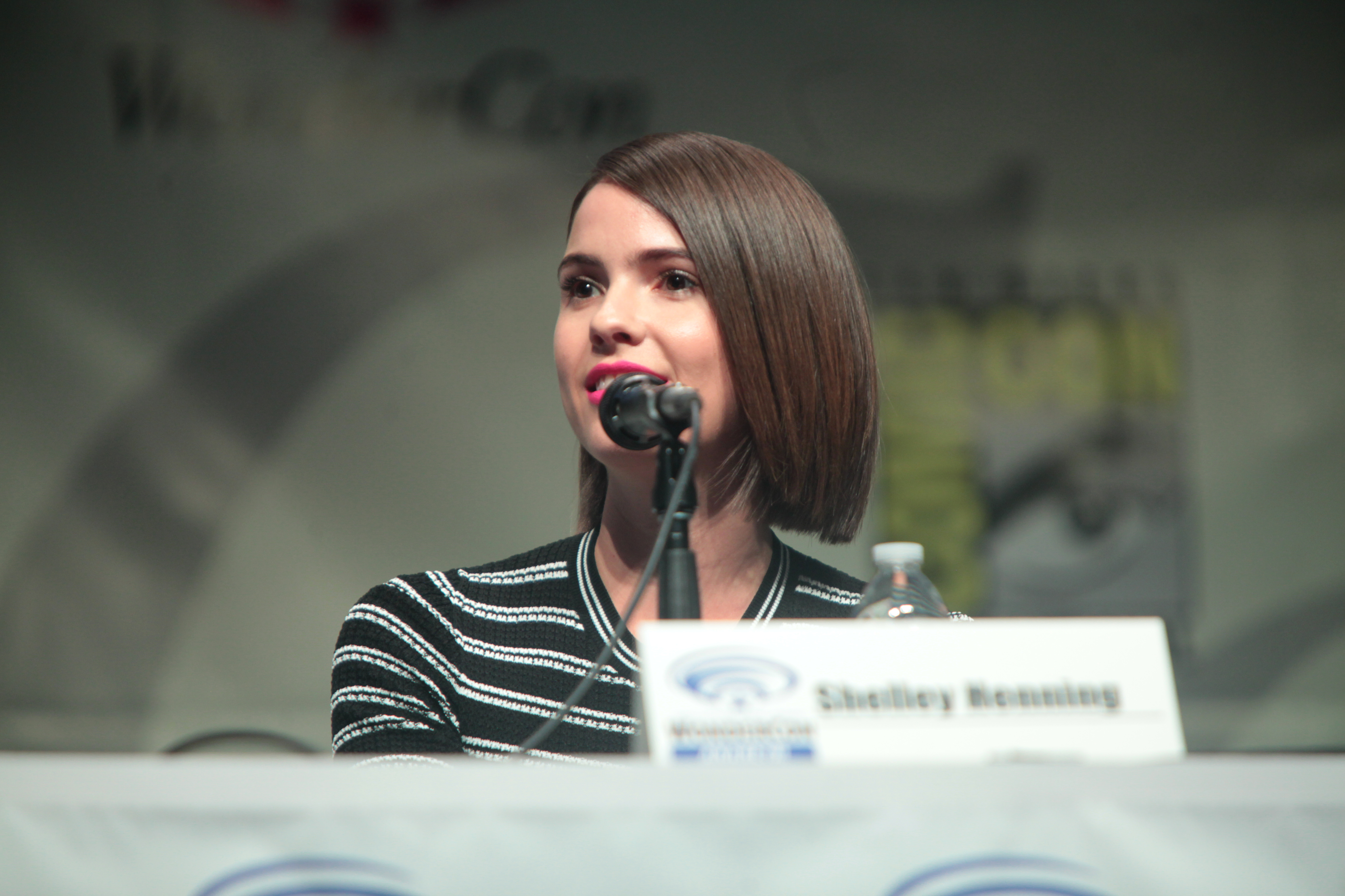 Shelley Hennig speaking at the 2015 Wondercon, for "Unfriended", at the Anaheim Convention Center in Anaheim, California.